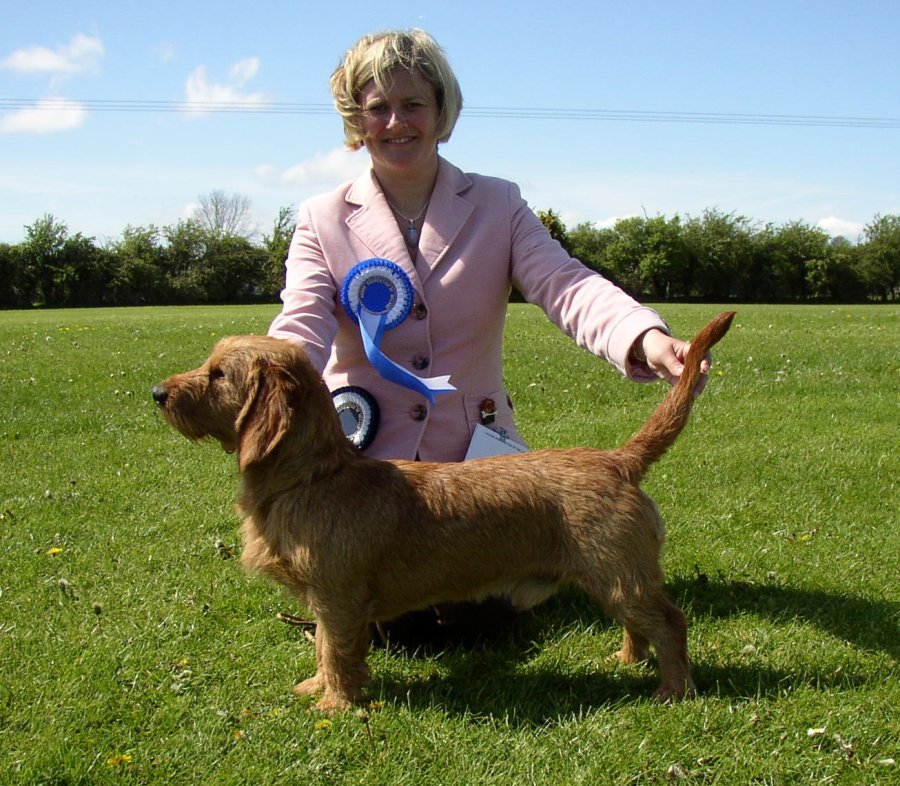 Basset Fauve de Bretagne, Ch/Ir Ch Brequest Bailee Basler